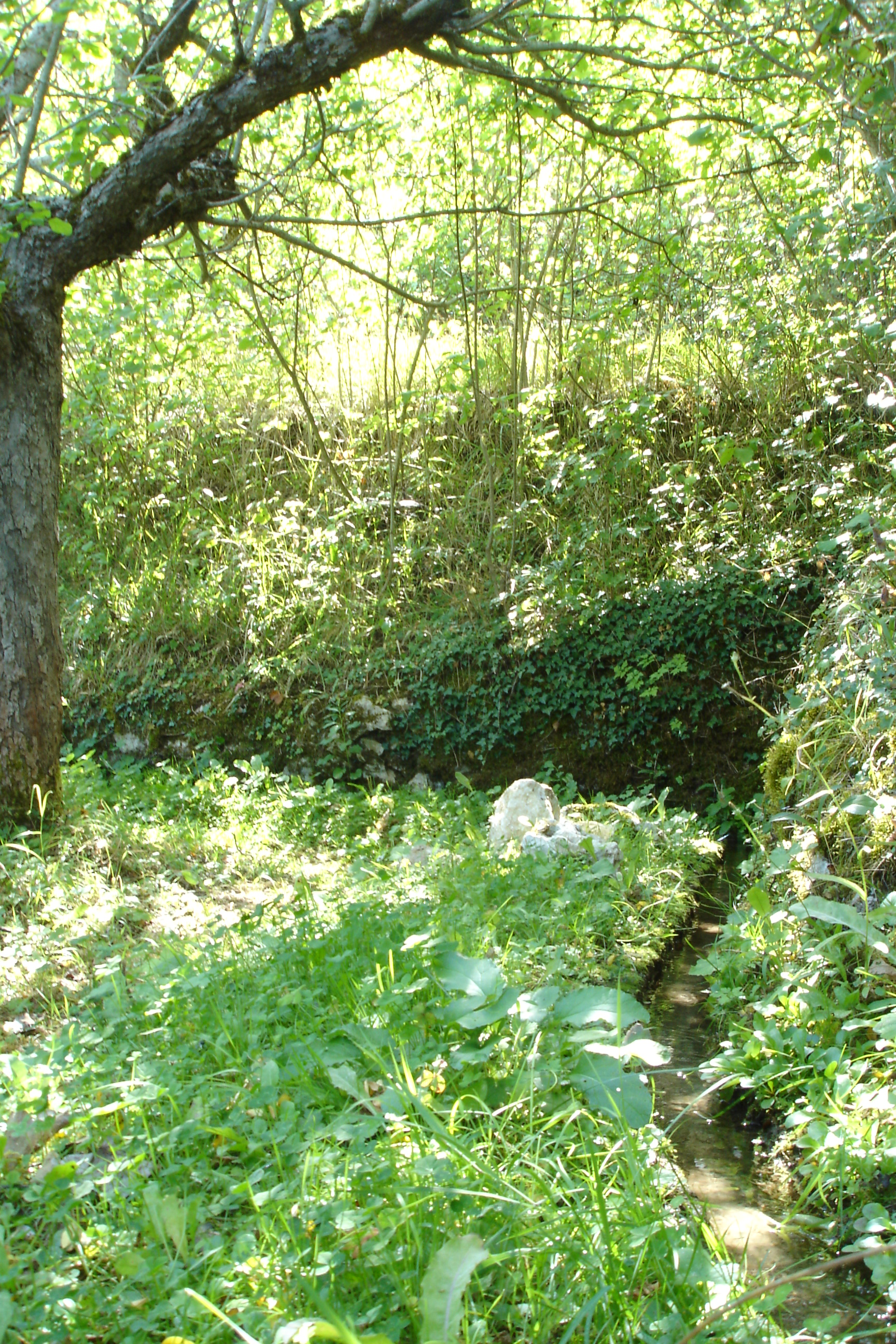 Springs in Scanno